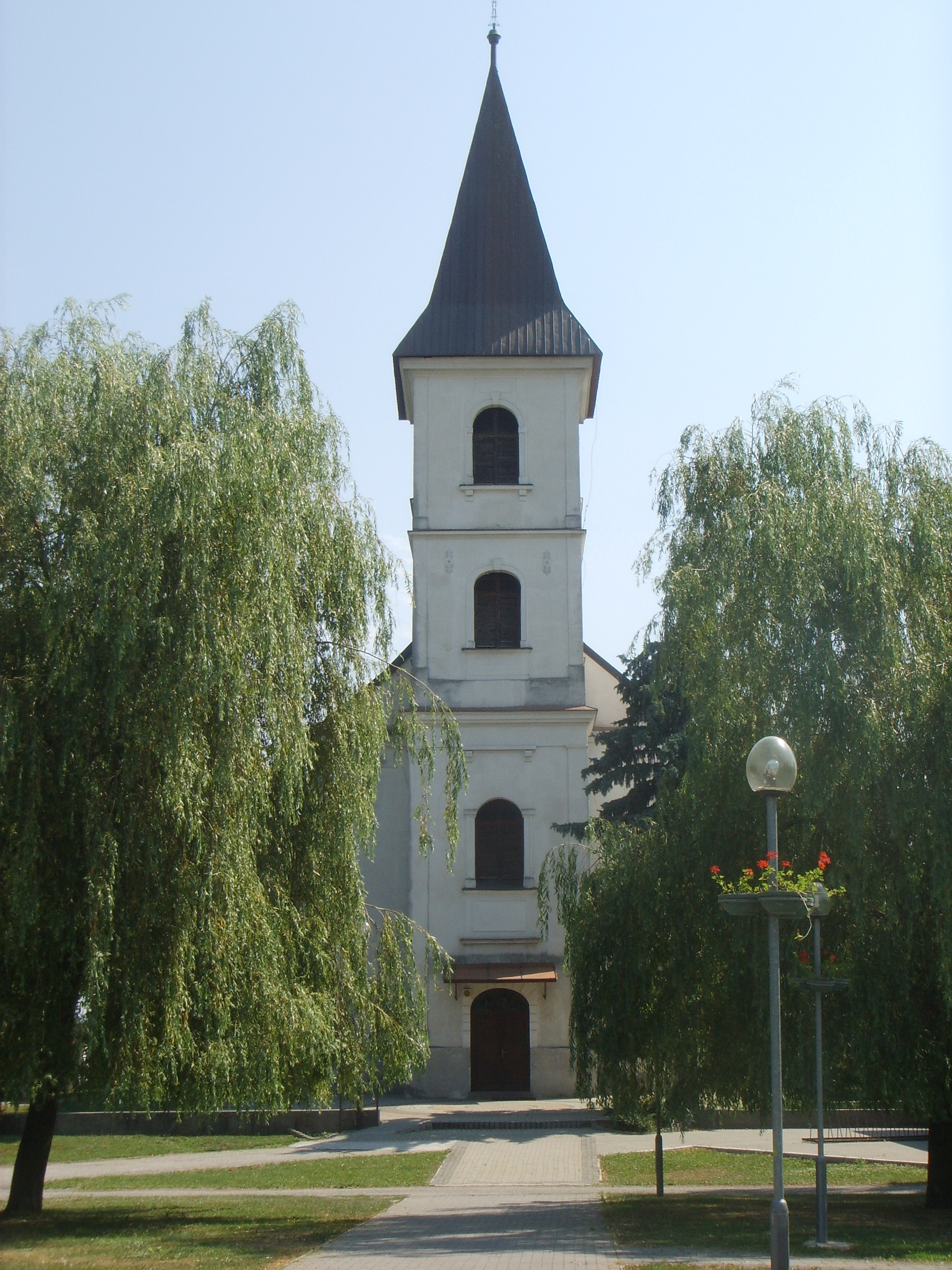 Roman Catholic church in Valaliky, Košice-okolie District, Slovakia